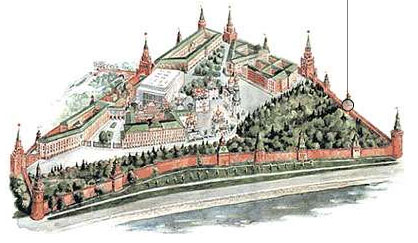 Overview map of the Moscow Kremlin. Location of Konstantino-Yeleninskaya Tower marked.